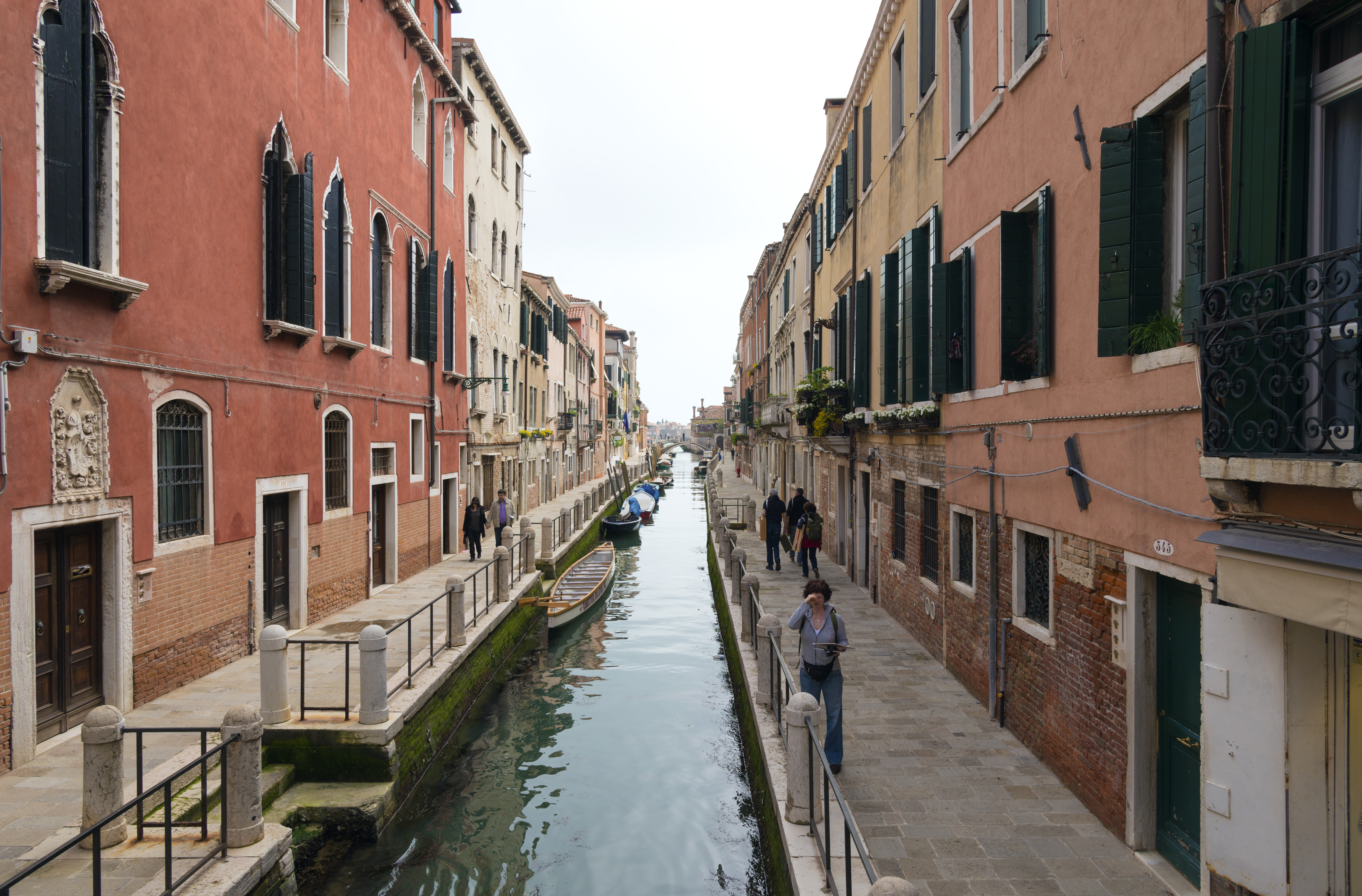 Rio del la Fornace Venice. View from Ponte San Gregorio to Ponte Santi.